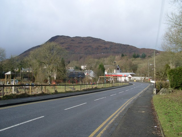 Aberfoyle and Craigmore The northwestern view from the A81 at Queens Crescent.